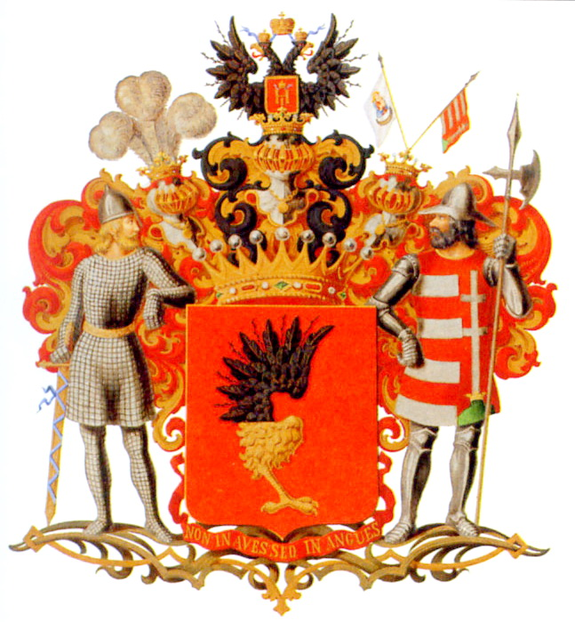 Coat of Arms of Bludovy family